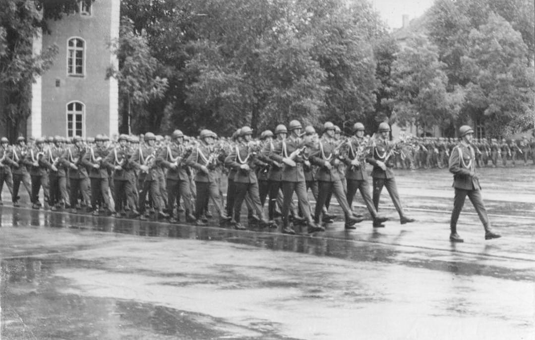 Border Protection Forces in Kętrzyn